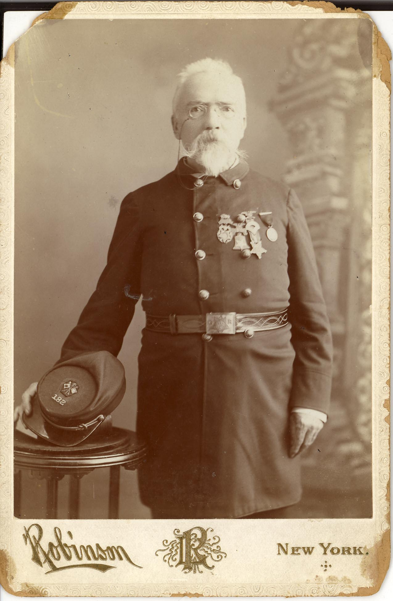 Colonel Thomas J. Kelly (B. January 6, 1833; D. February 5, 1908)